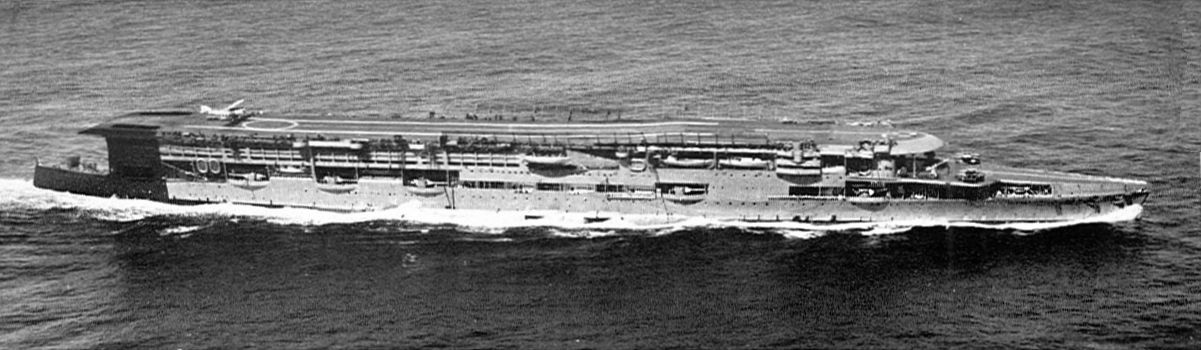 British Aircraft Carriers. HMS Furious Photo: Charles E. Brown